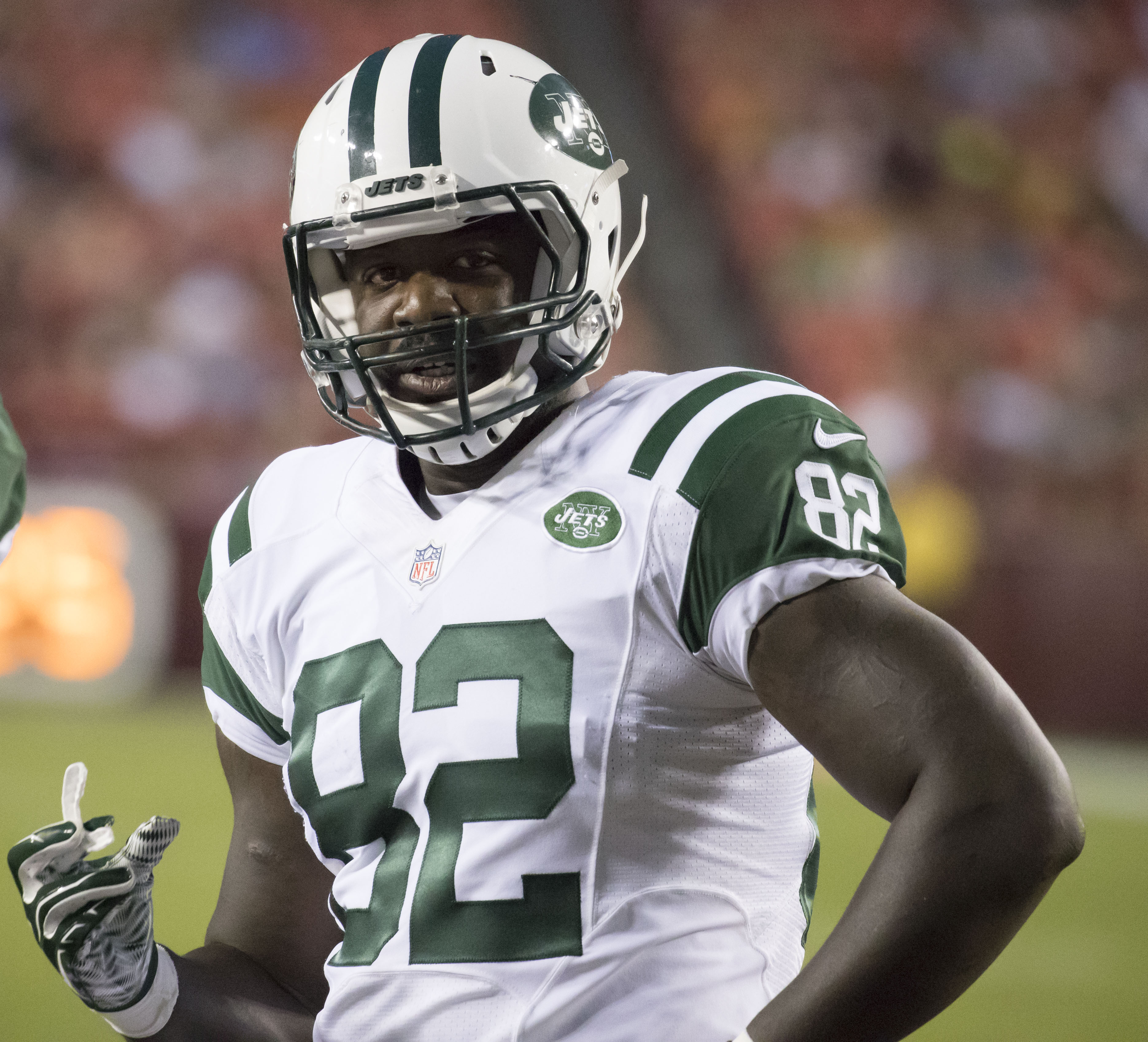 Jets at Redskins 8/19/16